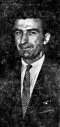 Kiro Gligorov (Macedonian: Киро Глигоров,), May 3, 1917 – January 1, 2012)